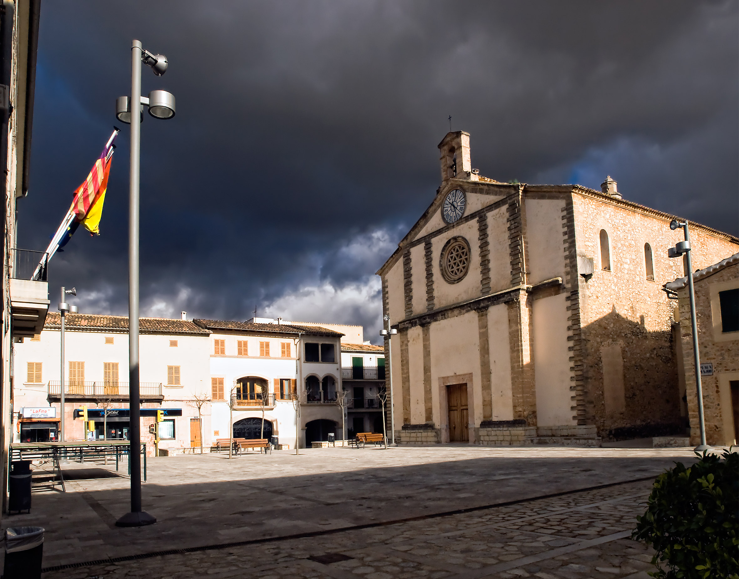 Consell Square (Mallorca, Spain)